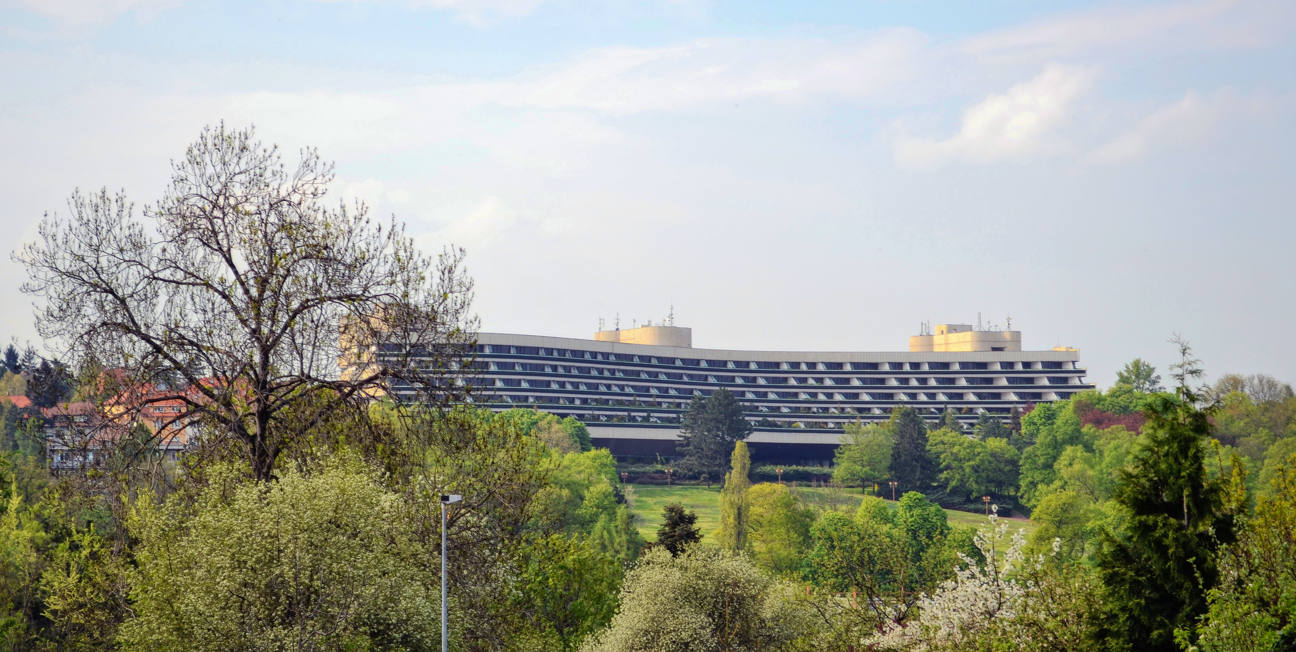 Hotel Praha, Dejvice, Prague 6, Czech Republic. View from Spojená street.